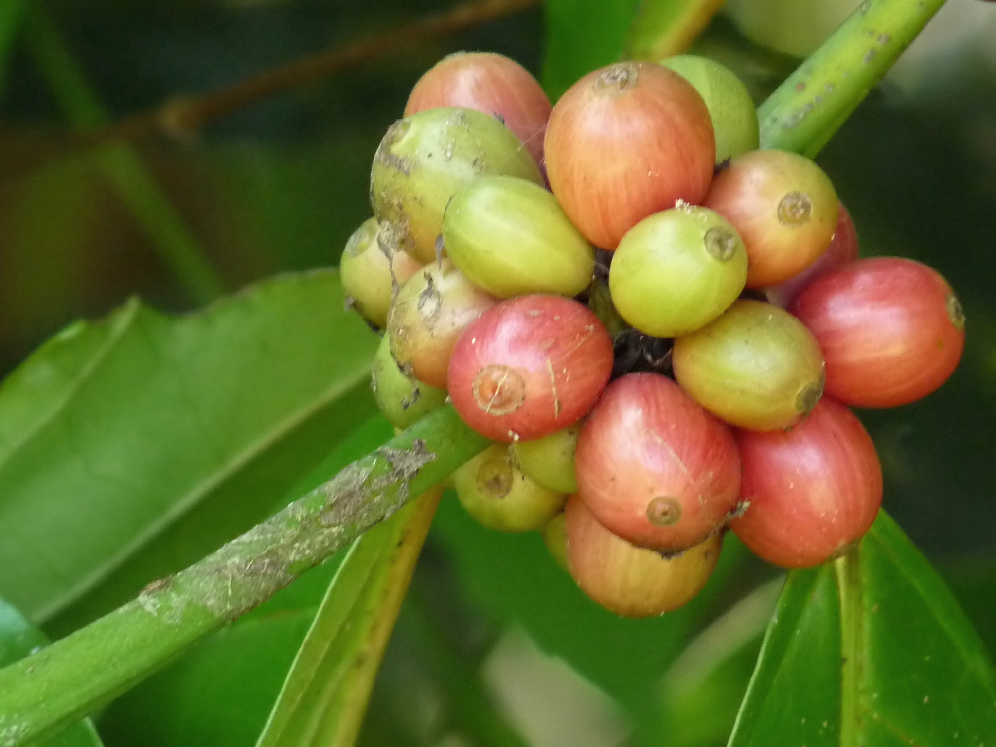 Robusta coffee (Coffea canephora; syn. Coffea robusta) is a species of coffee that has its origins in central and western sub-Saharan Africa. It is a species of flowering plant in the Rubiaceae family. Though widely known as Coffea robusta, the plant is scientifically identified as Coffea canephora, which has two main varieties - Robusta and Nganda. The plant has a shallow root system and grows as a robust tree or shrub to about 10 metres. It flowers irregularly, taking about 10–11 months for cherries to ripen, producing oval-shaped beans. The robusta plant has a greater crop yield than that of Coffea arabica, and contains more caffeine - 2.7% compared to arabica's 1.5%. As it is less susceptible to pests and disease, robusta needs much less herbicide and pesticide than arabica. Originating in upland forests in Ethiopia, C. canephora grows indigenously in Western and Central Africa. It was not recognized as a species of Coffea until the 19th century, about a hundred years after Coffea arabica.